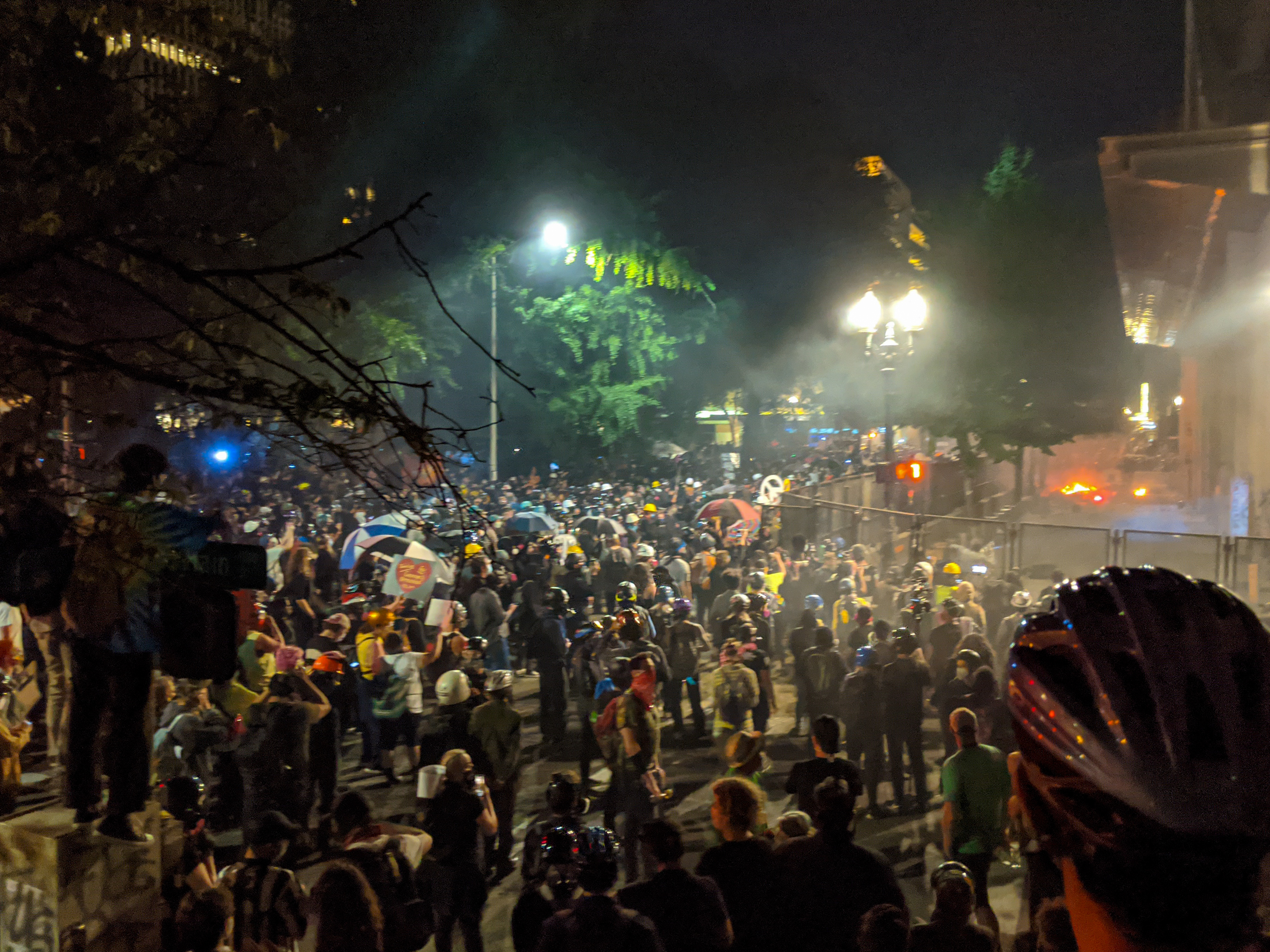 Tear gas from BORTAC and fires at Mark O. Hatfield United States Courthouse during the 2020 George Floyd protests in Portland, Oregon.